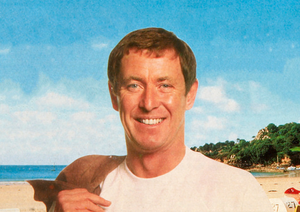 Jersey tourism advertising featuring actor John Nettles. Jersey Tourism, the tourism agency of the States of Jersey, has placed a selection from its advertising archive online at Flickr under CC licences : It further states there: "Jersey Tourism is part of the States of Jersey. These images are provided freely, without copyright restrictions and no royalties are payable."